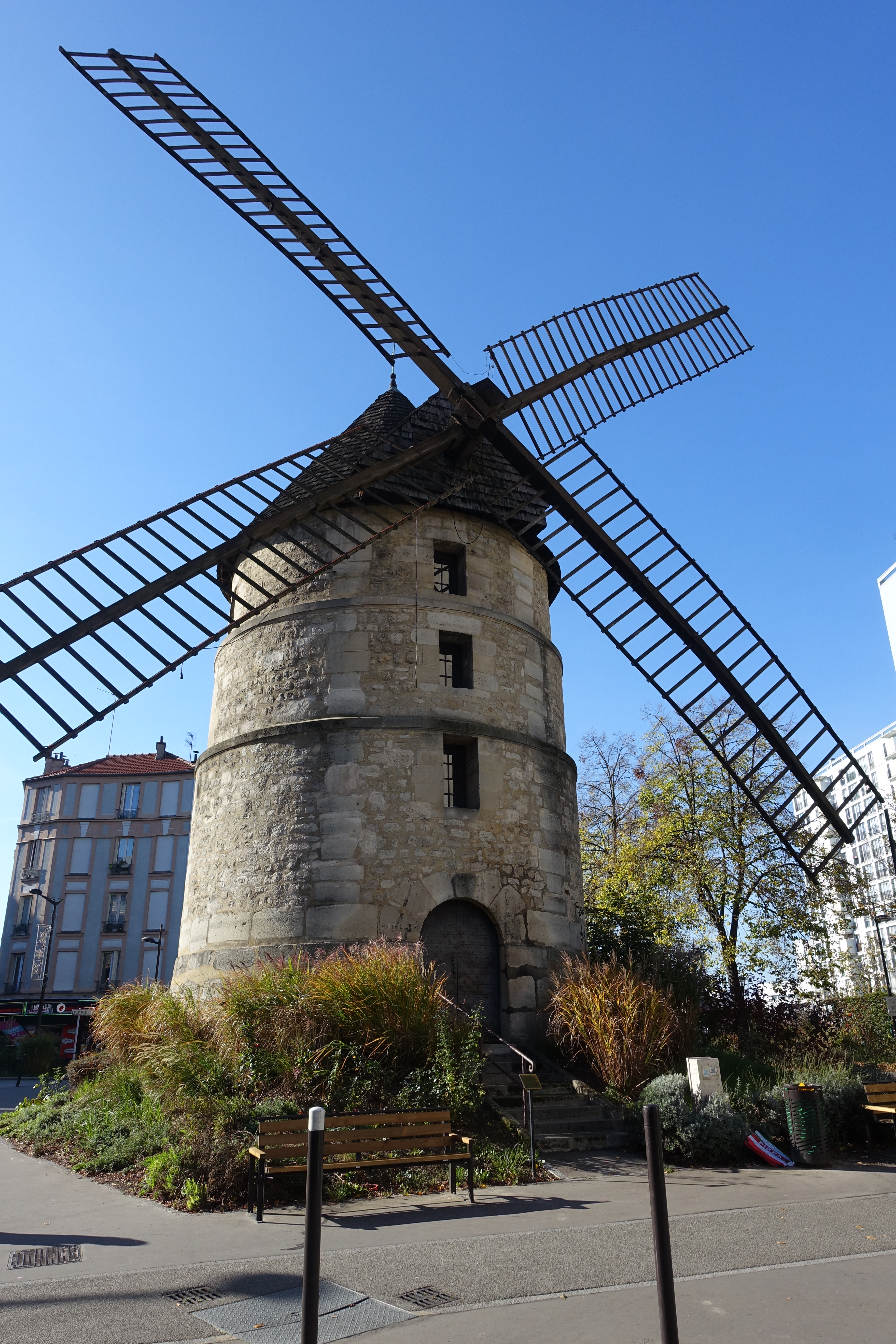 Windmill @ Ivry-sur-Seine